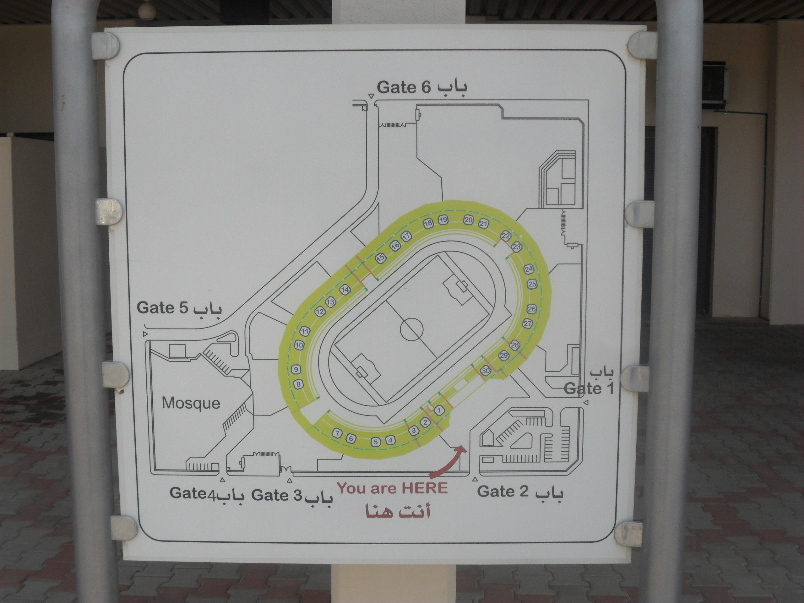 Prince Mohammed Bin Fahd Stadium Map in Dammam, Saudi Arabia.